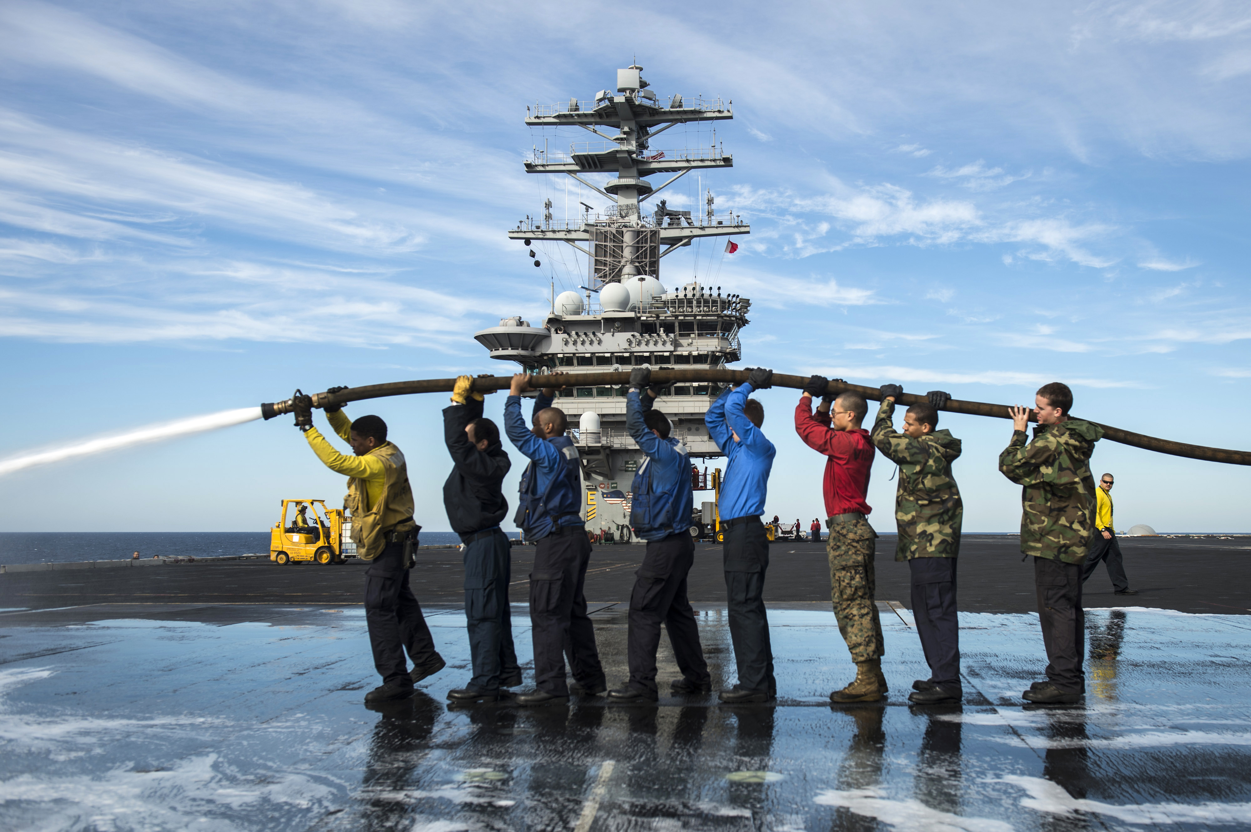 Sailors and Marines hoist a fire hose over their heads as they wash the flight deck of the aircraft carrier USS Nimitz (CVN 68) as the ship operates in the Pacific Ocean on Nov. 12, 2012. Nimitz is currently in transit to Naval Air Station North Island after successfully completing the ship’s joint task force exercise.